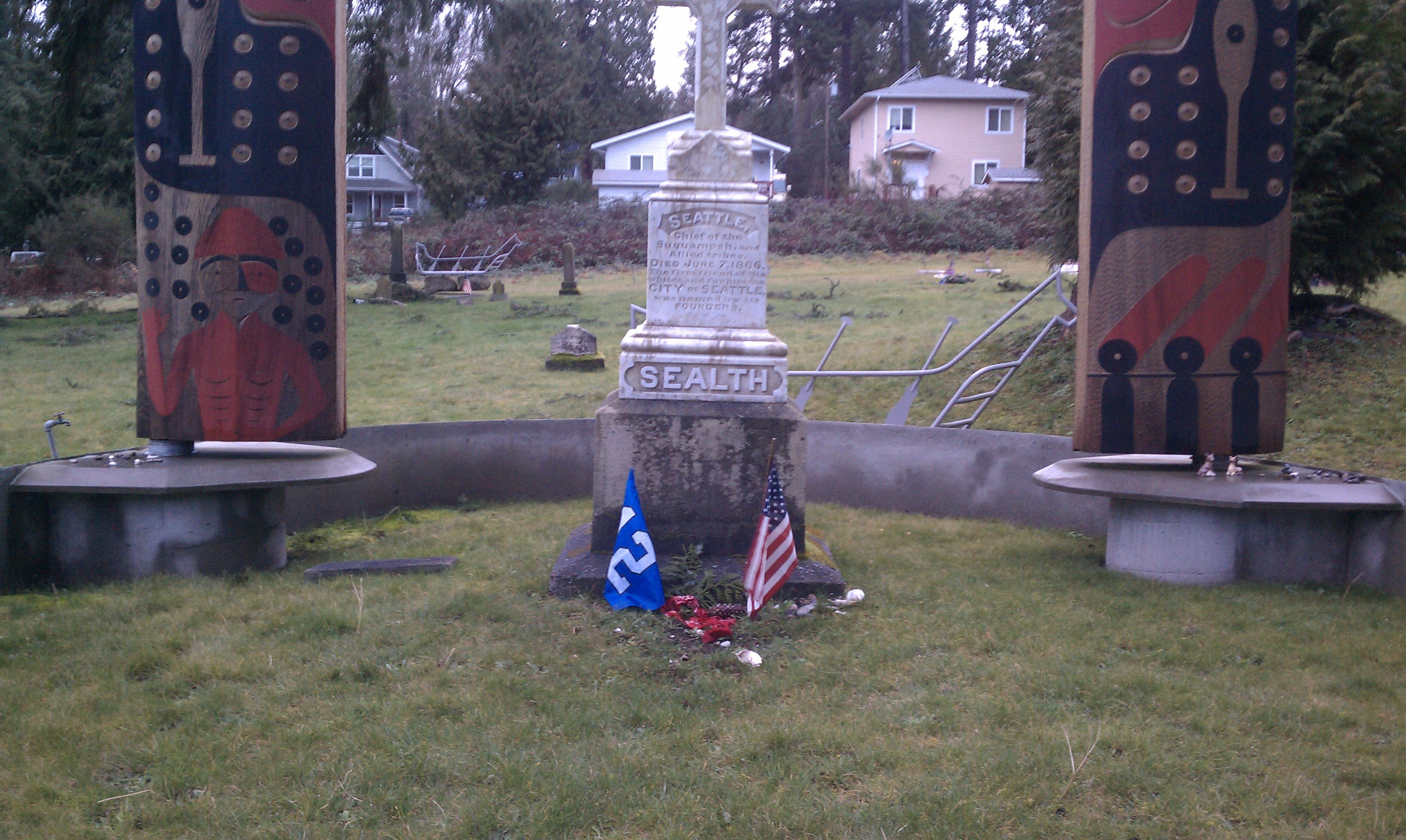 Chief Seattle's grave updated photo after new landscaping